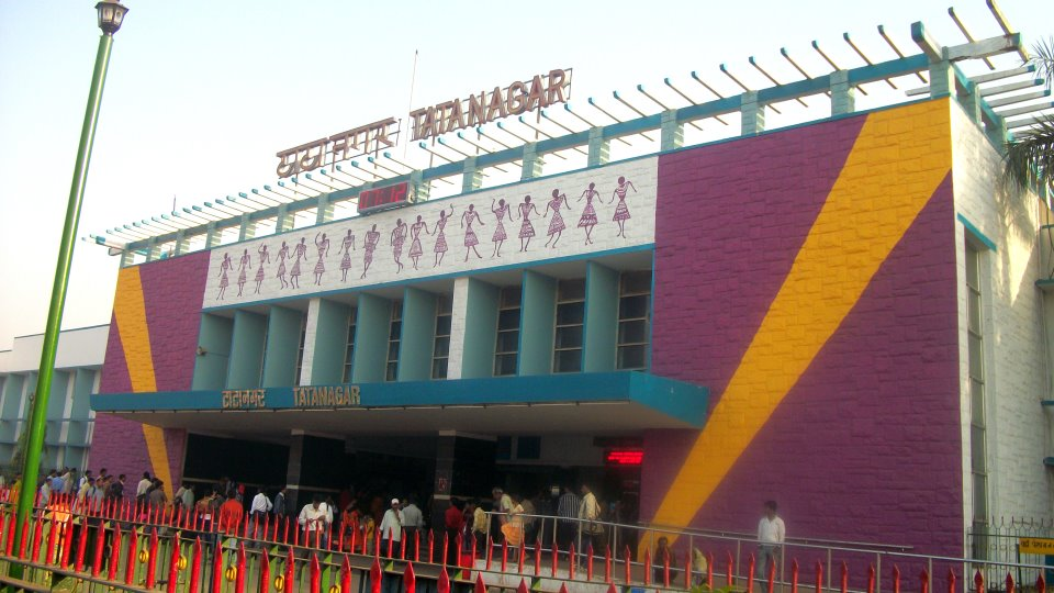 New Tatanagar Railway station